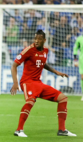 RA1_6160 (Jérôme Boateng of FC Bayern Munich)